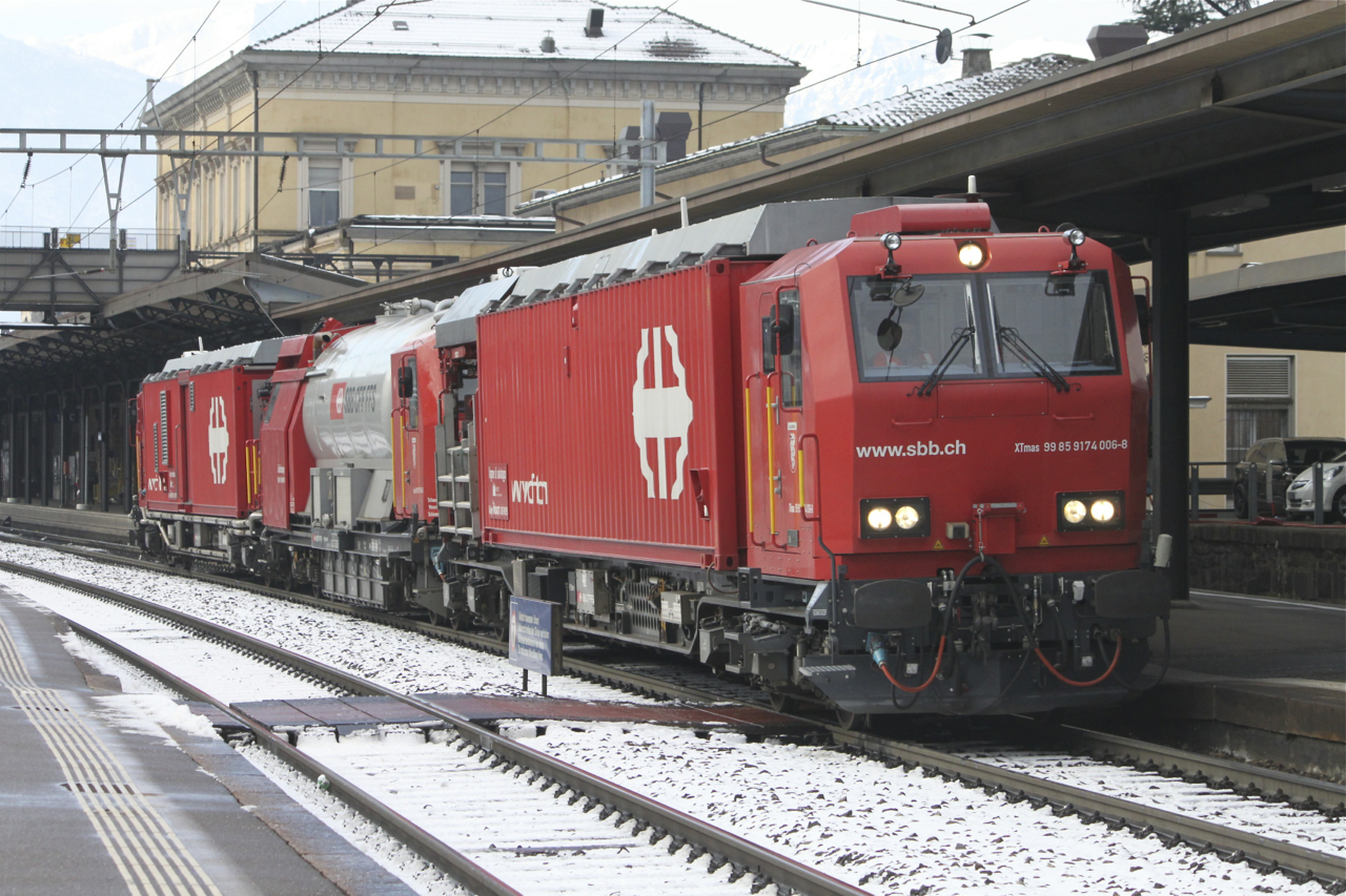 SBB CFF FFS XTmas 99 85 9174 006-8, part of the fire fighting and rescue train based in Bellinzona.